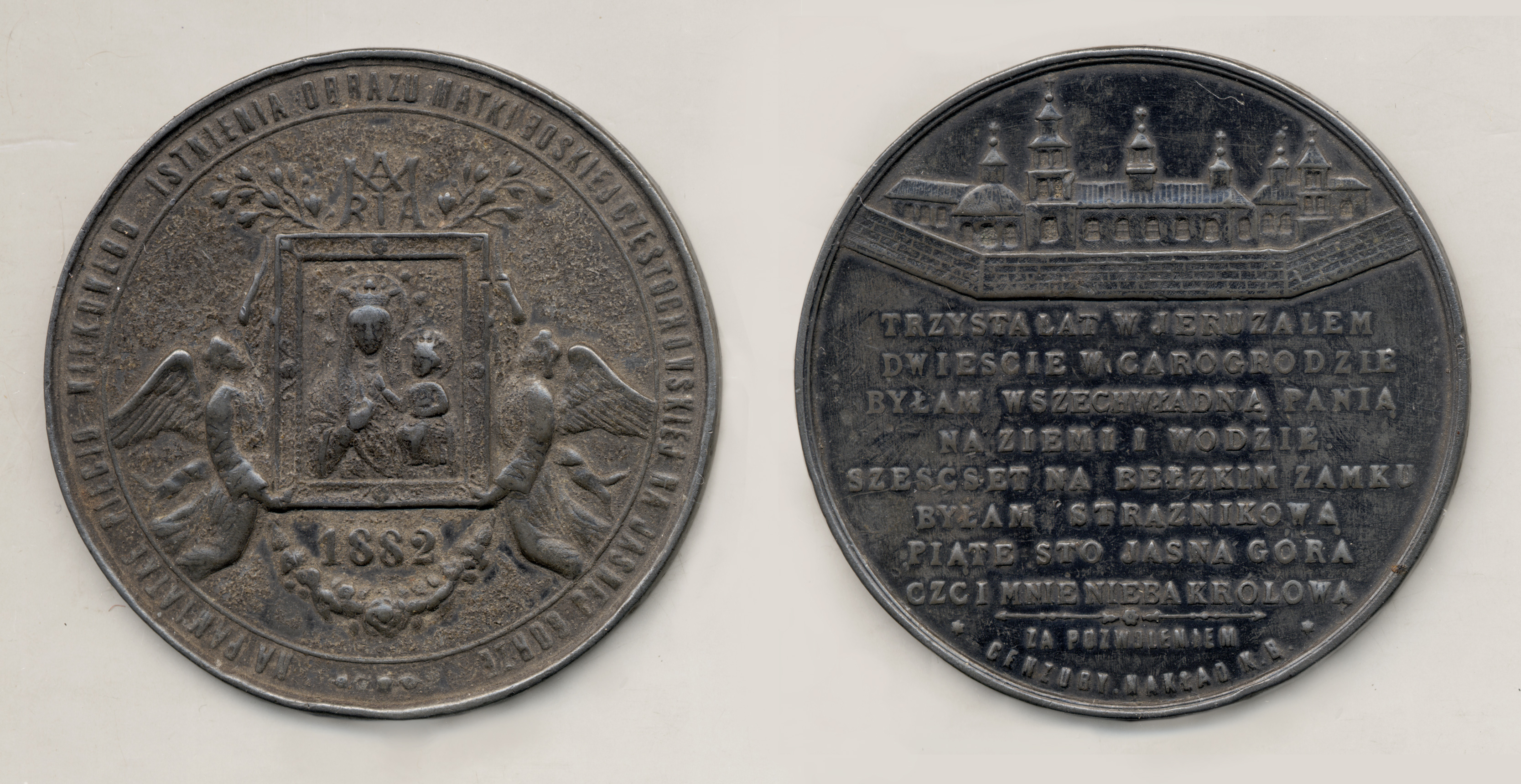 Częstochowa memorial medal 1882